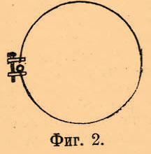 Micrometer spark gap detector used by German physicist Heinrich Hertz in his historic 1889 experiments in which he demonstrated the existence of radio waves. It consisted of a loop antenna consisting of a loop of wire with a spark gap that could be finely adjusted with a thumbscrew. With this he detected radio waves in the UHF range from a spark gap transmitter. From article "Electric Oscillations" in Brockhaus and Efron encyclopedia.